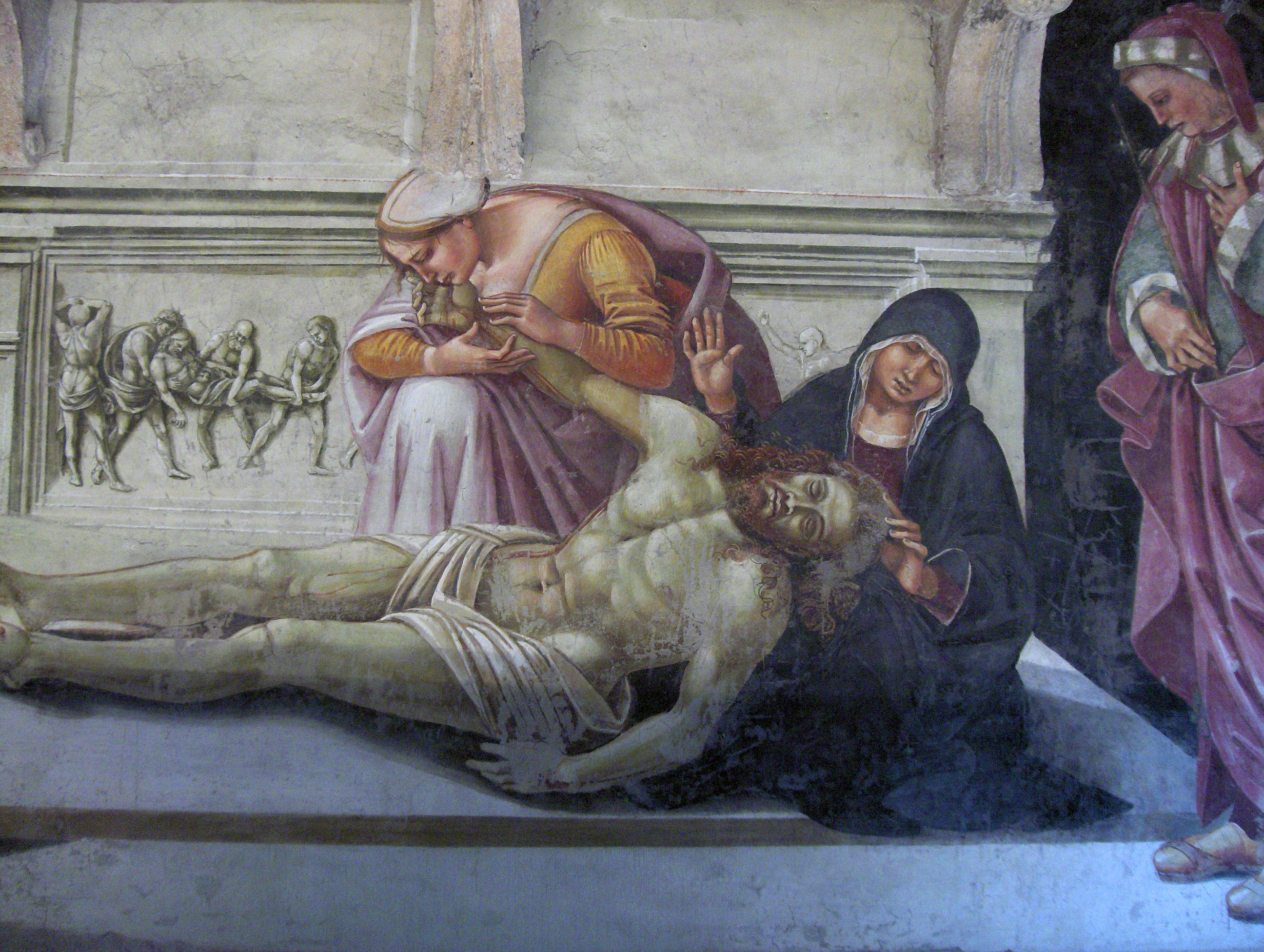 "Pietà" by Luca Signorelli and his school (1499-1504); San Brizio Chapel, Cathedral of Orvieto, Italy